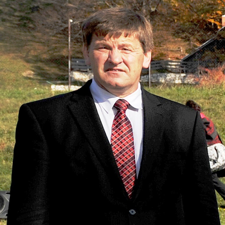 Franc Bogovič